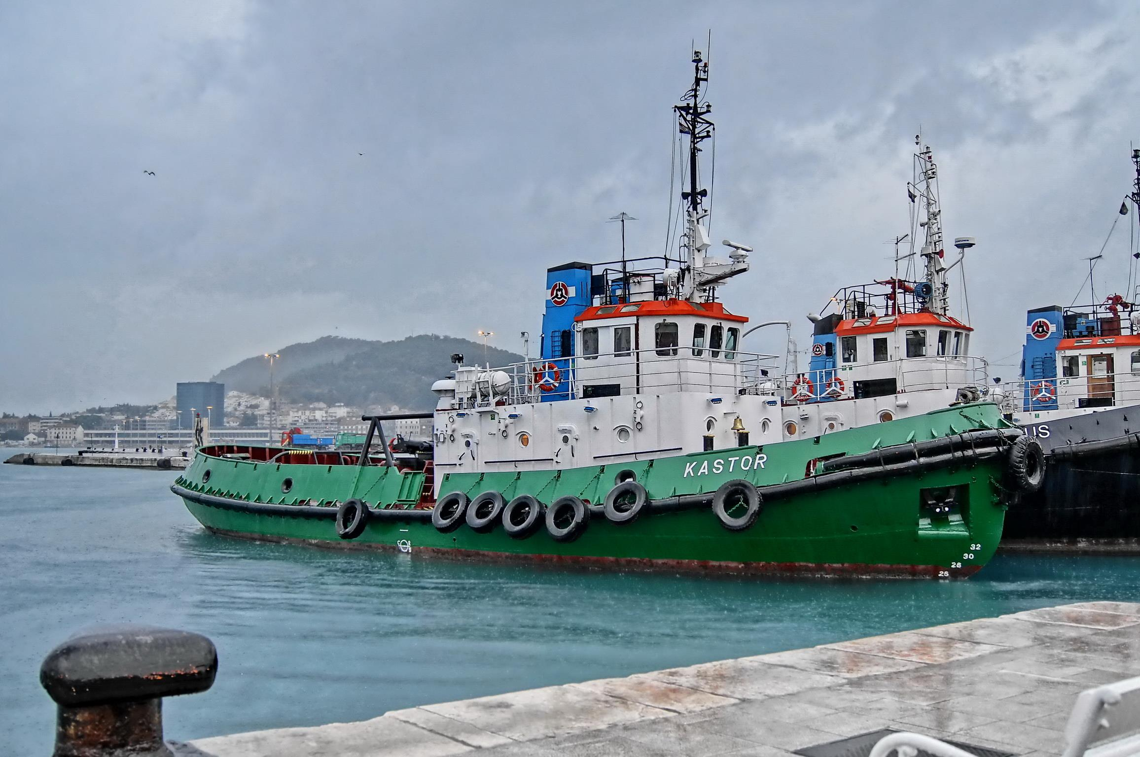 Kastor (tugboat, 1989) IMO 8730560; in Split, 2011-10-20